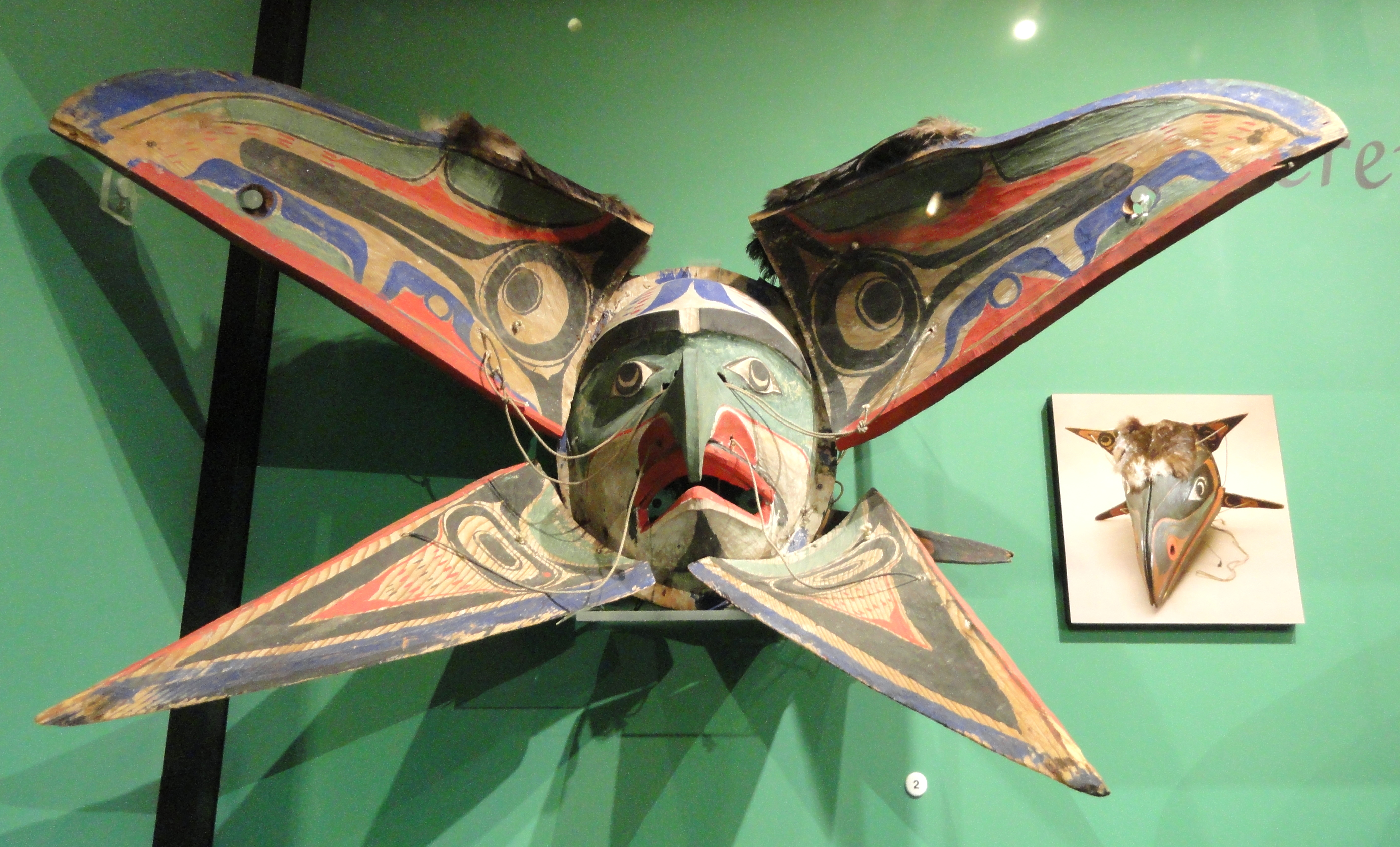 Transformation mask, Kwakiutl, collected in Tsatsichnukwumi village on Harbledown Island in 1917. Exhibit from the Native American Collection, Peabody Museum, Harvard University, Cambridge, Massachusetts, USA. Photography was permitted without restriction; exhibit is old enough so that it is in the public domain.